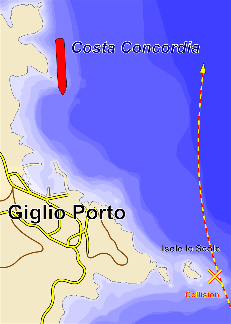 coastal waters near the island of Giglio, Costa Concordia, instead of collision